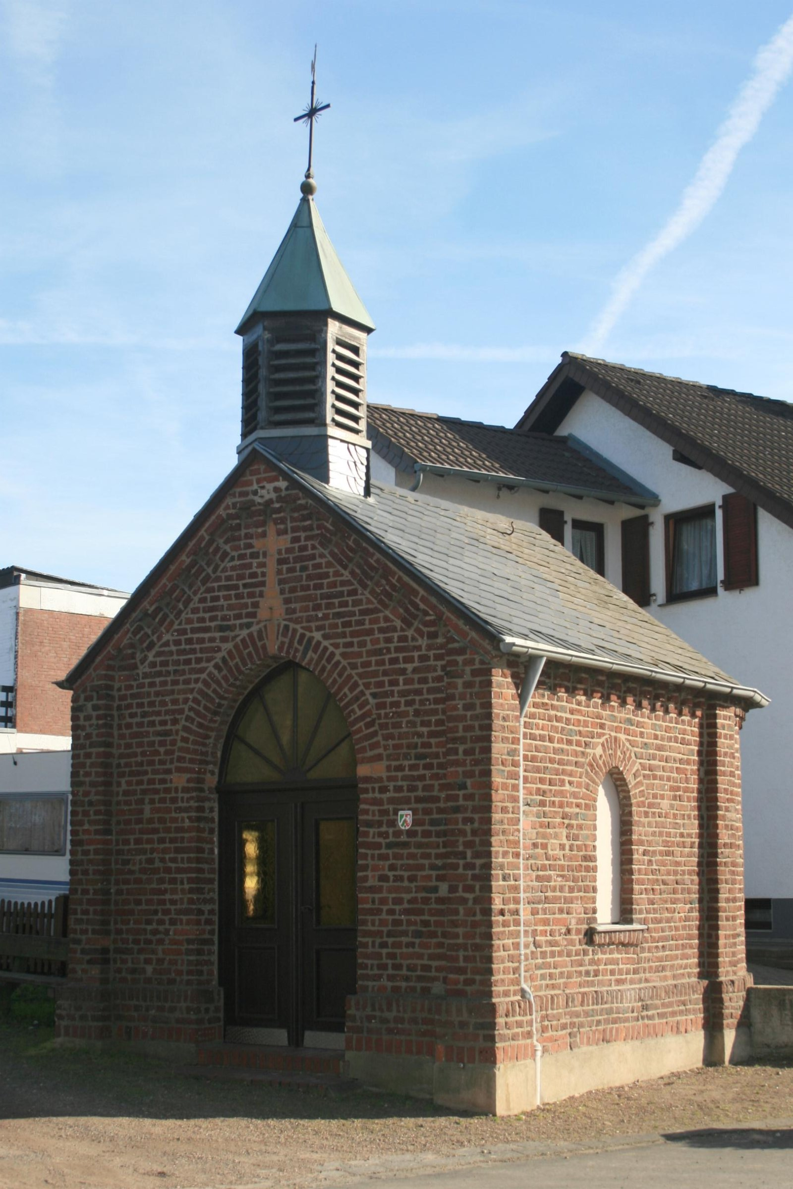 Cultural heritage monument No. 36 in Jülich